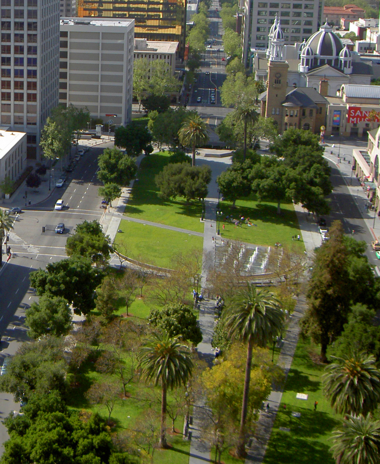 Single Shot version Taken on the same day as my panoramic. Please see: [1]